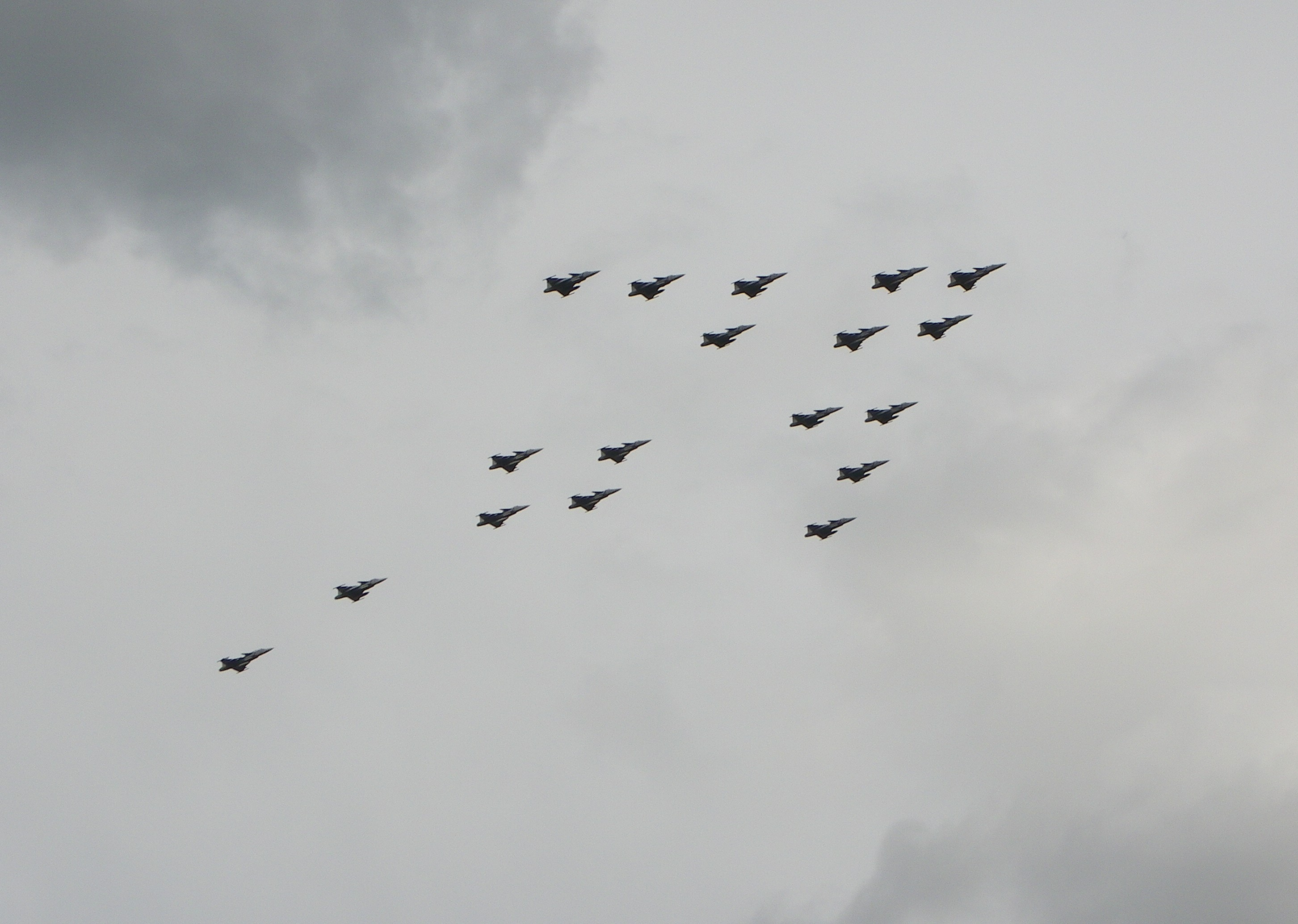 Eighteen JAS 39 Gripen planes flying over the wedding of Victoria, Crown Princess of Sweden, and Daniel Westling.